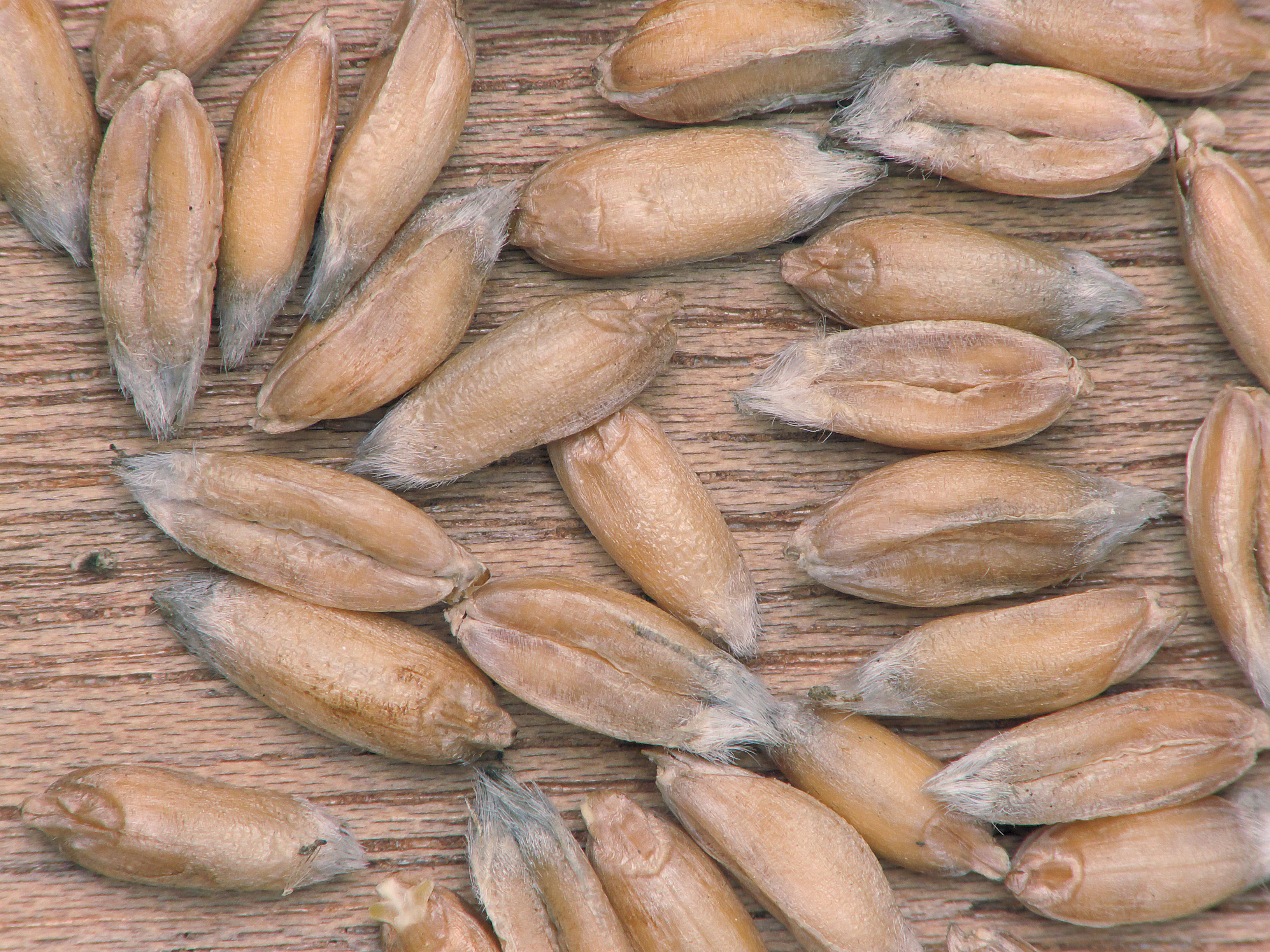 Triticum spelta, length: 10mm